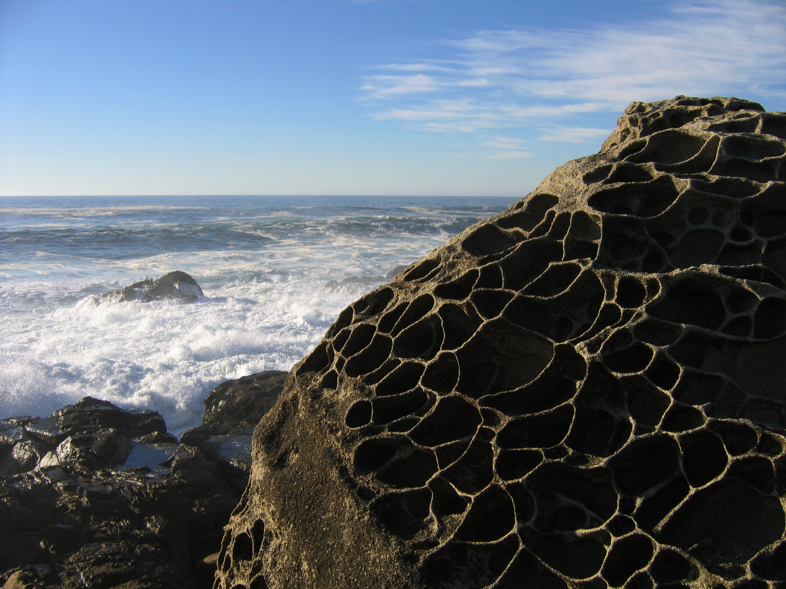 Tafoni at Salt Point, Sonoma Coast, California.